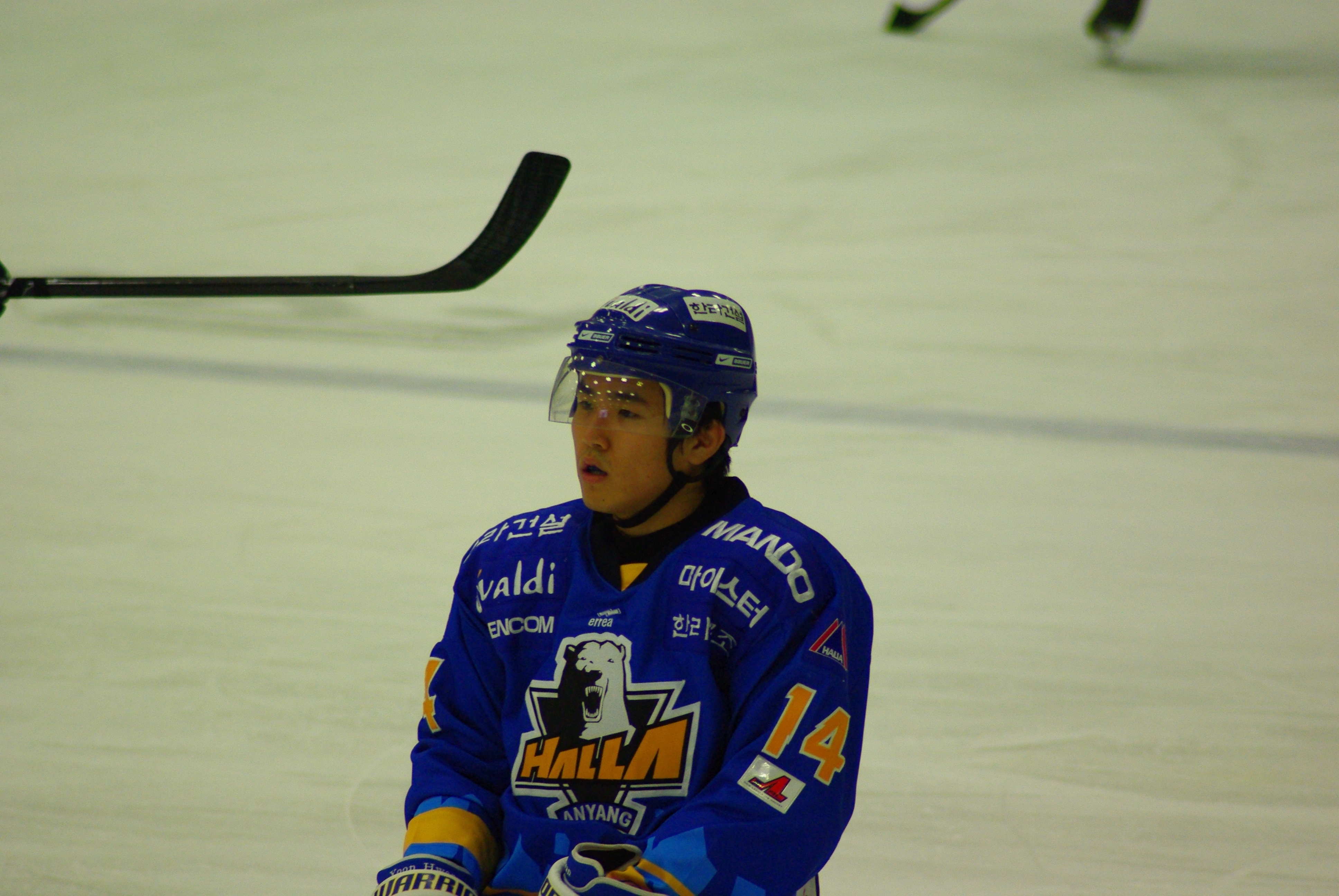 Kim Yoon-hwan, of Anyang Halla, during pre-game warm-up on October 10, 2010